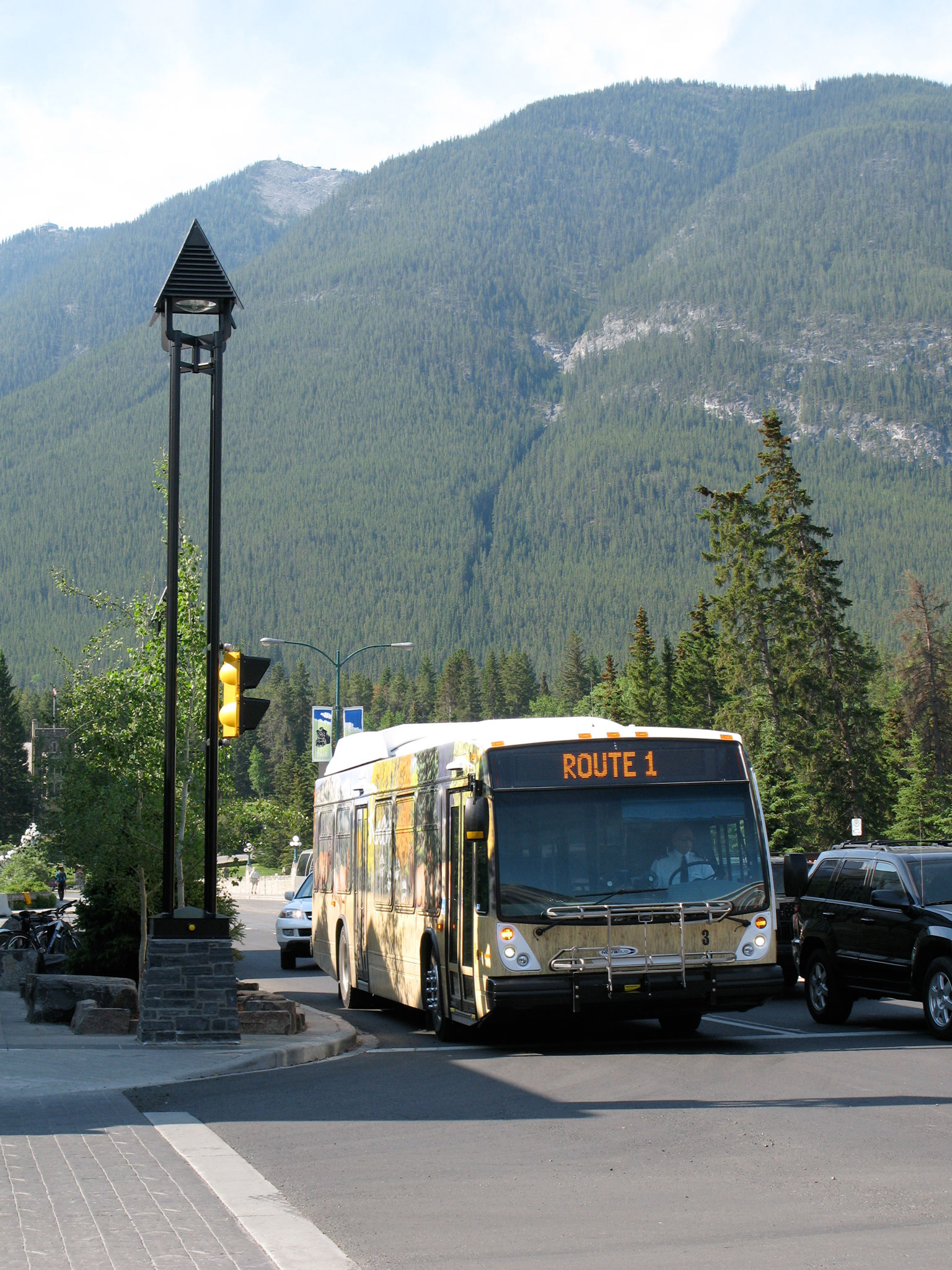 A local bus operated by Roam, running a route 1 service along Banff Avenue in Banff, Alberta, Canada.